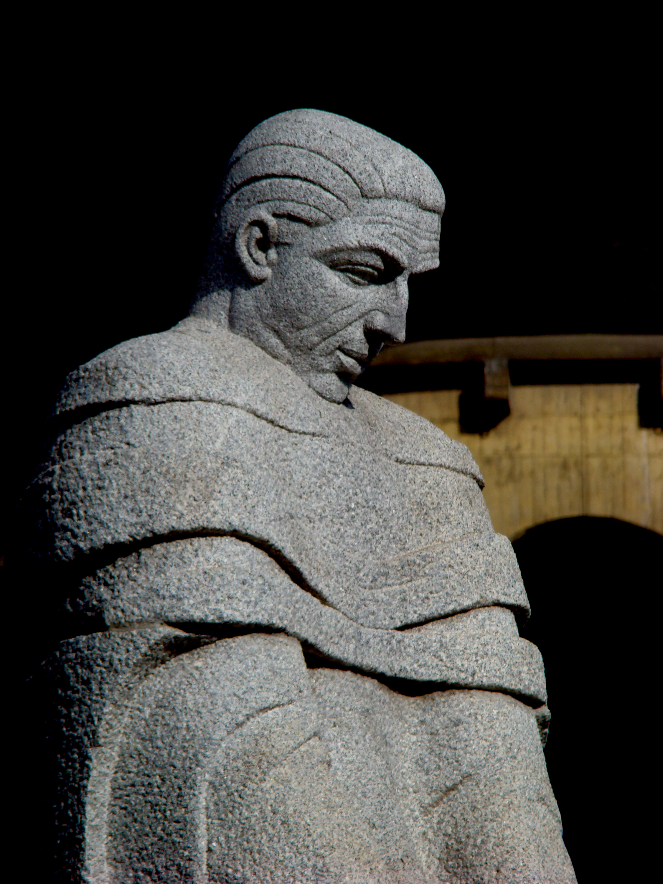 Detail of the monument to José Calvo Sotelo (1893–1936). Built in Madrid (Spain) in 1960. Made by architect Manuel Manzano Monís and sculptor Carlos Ferreira de la Torre.